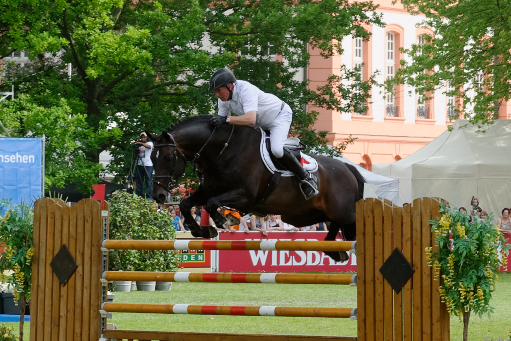 Internationales Pfingstturnier Wiesbaden 2014 The making of this document was supported by the Community-Budget of Wikimedia Germany.